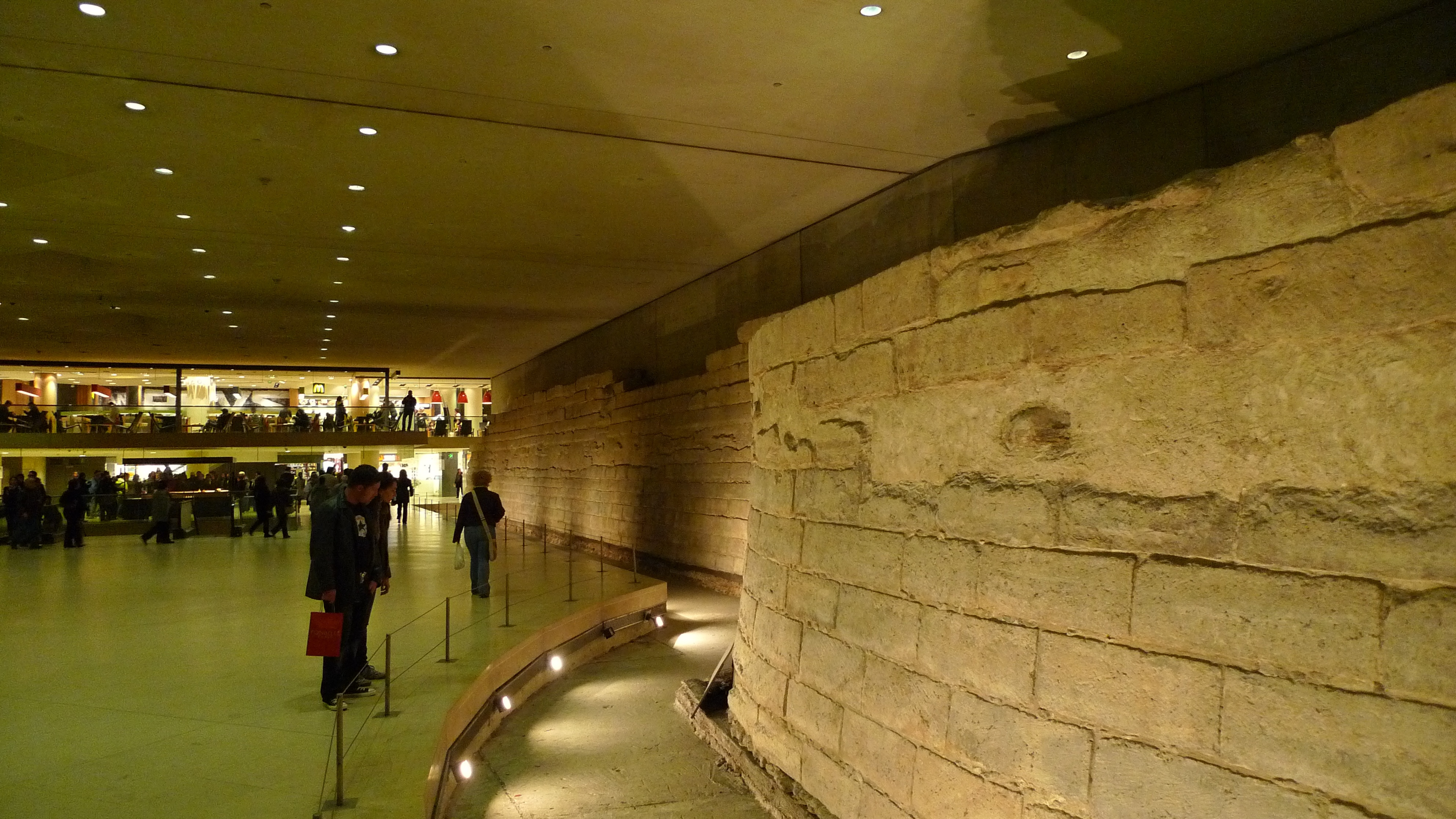 Entrance to the Carrousel du Louvre Shopping Center under the Louvre.